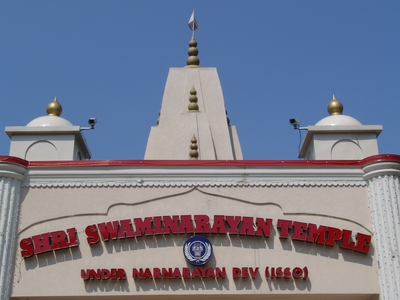 Shikshars of the Swaminarayan temple in Colonia (NJ), USA